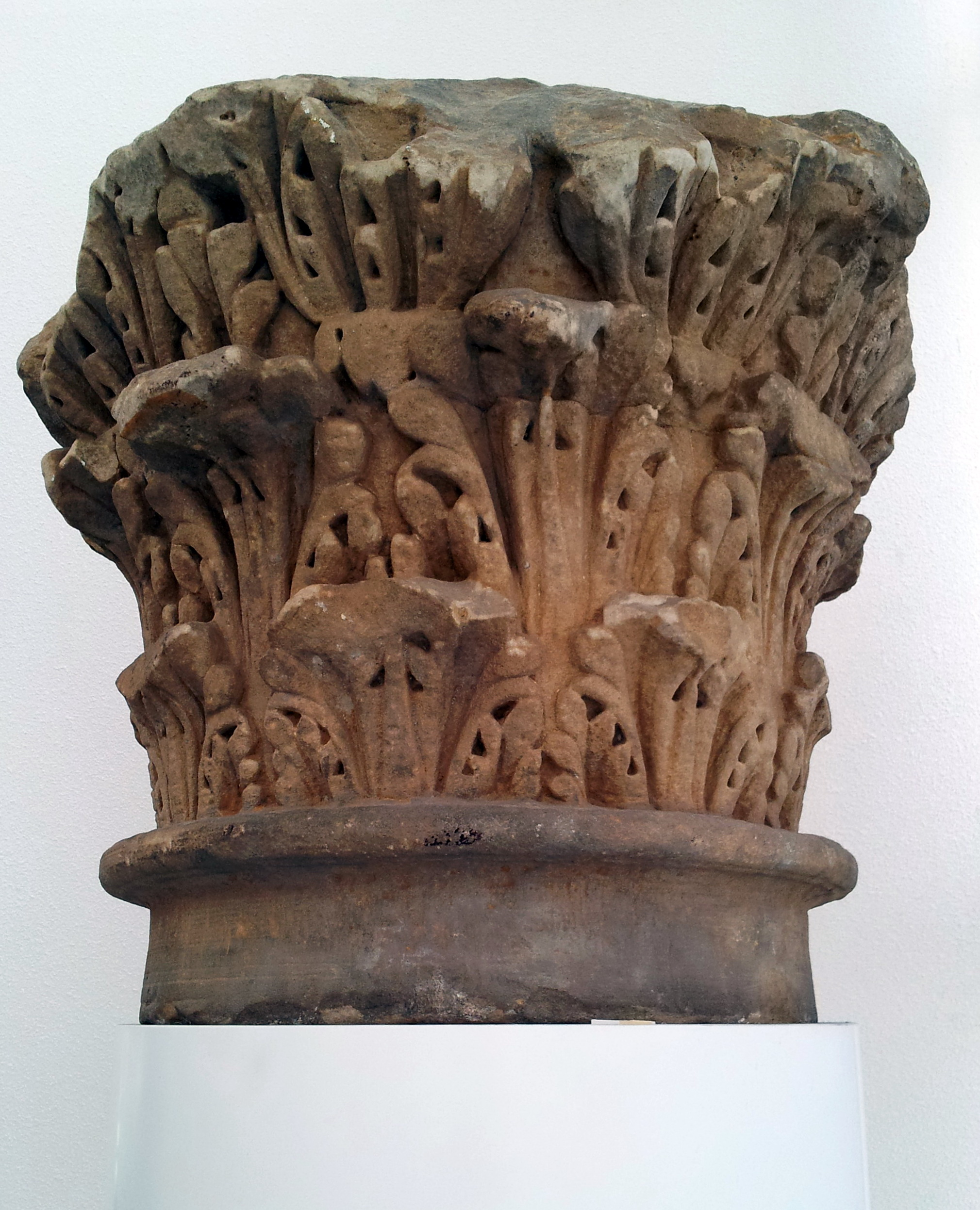 Corinthian capital (180-220 AD), found in 1871 at the site of a Roman villa near Meerssen. Archeological collection of Centre Céramique, Maastricht, the Netherlands.